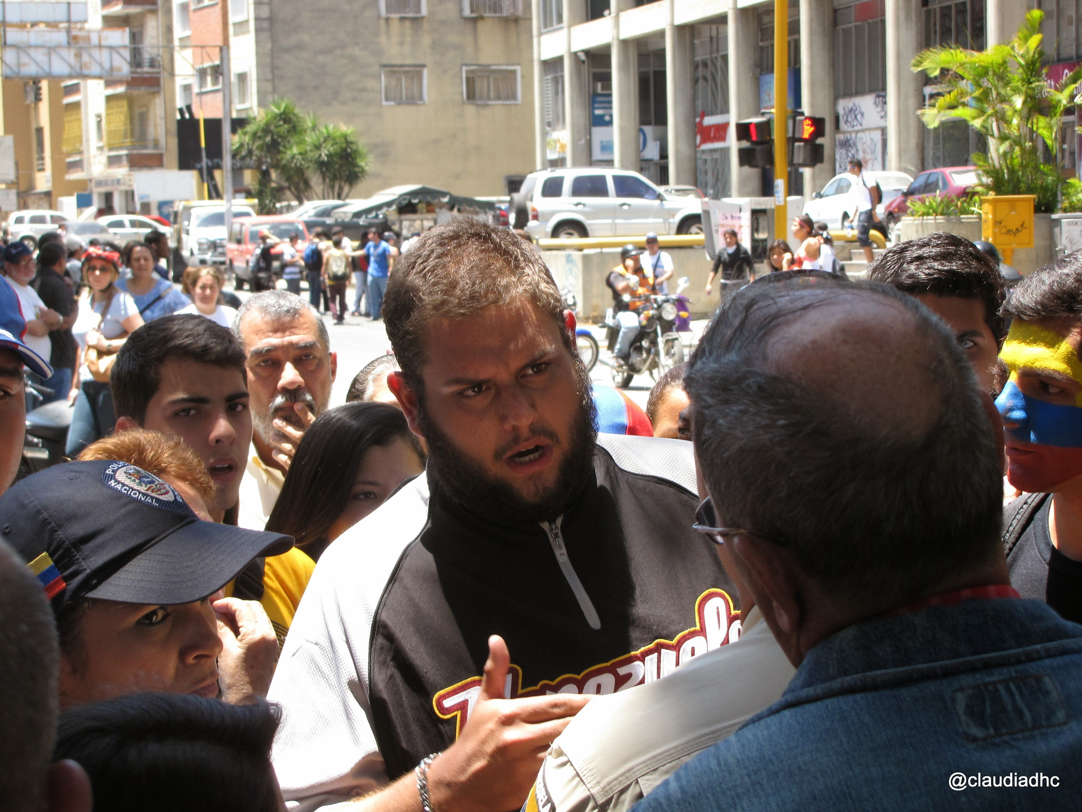 Juan Requesens speaking with a police officer.